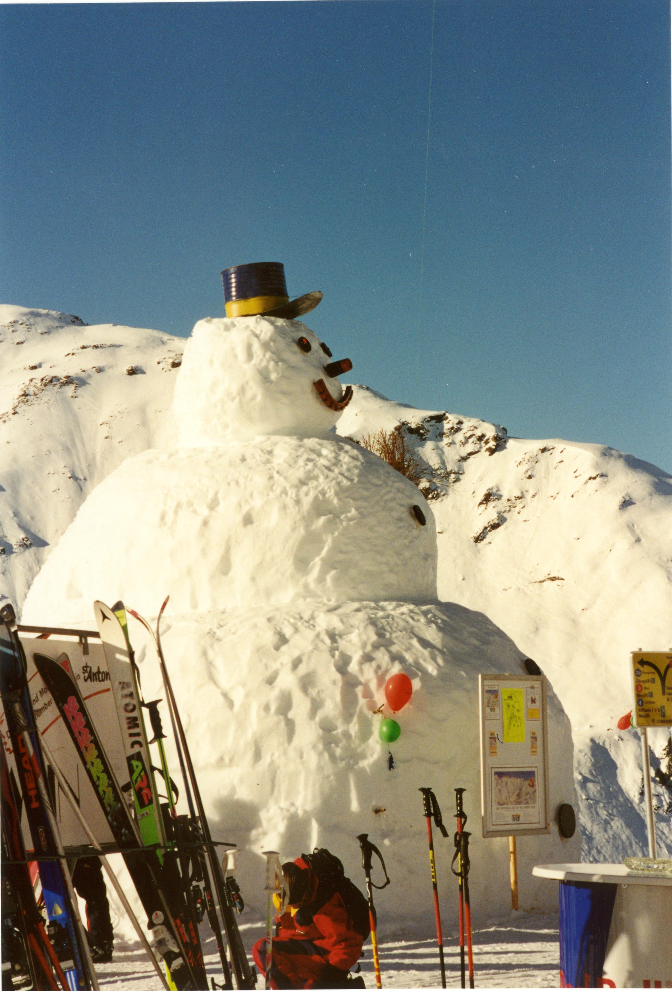 Snowman in Sky station at St Anton am Alberg